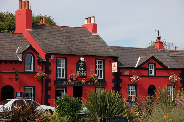 The Joymount Arms, Carrickfergus. The “Joymount Arms” (known as “Oney’s”) claims to date from 1846. The oldest licensed premises in Carrickfergus, however, date from the 17th century and are still open for business.